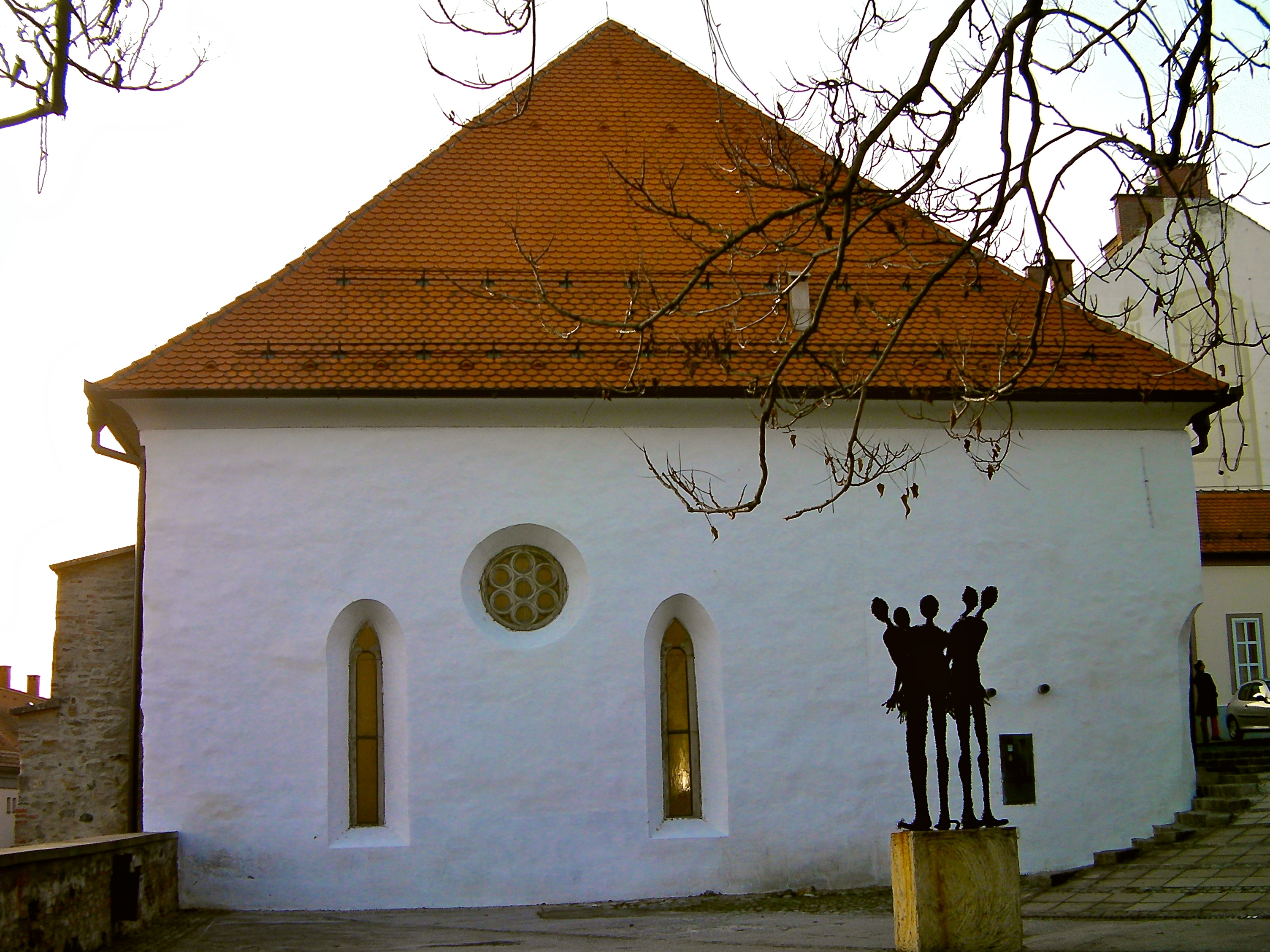 Holocaust Memorial and Synagogue, Maribor